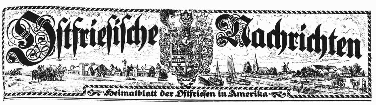 Issue Ostfriesische Nachrichten- Heimatblatt der Ostfriesen in Amerika”